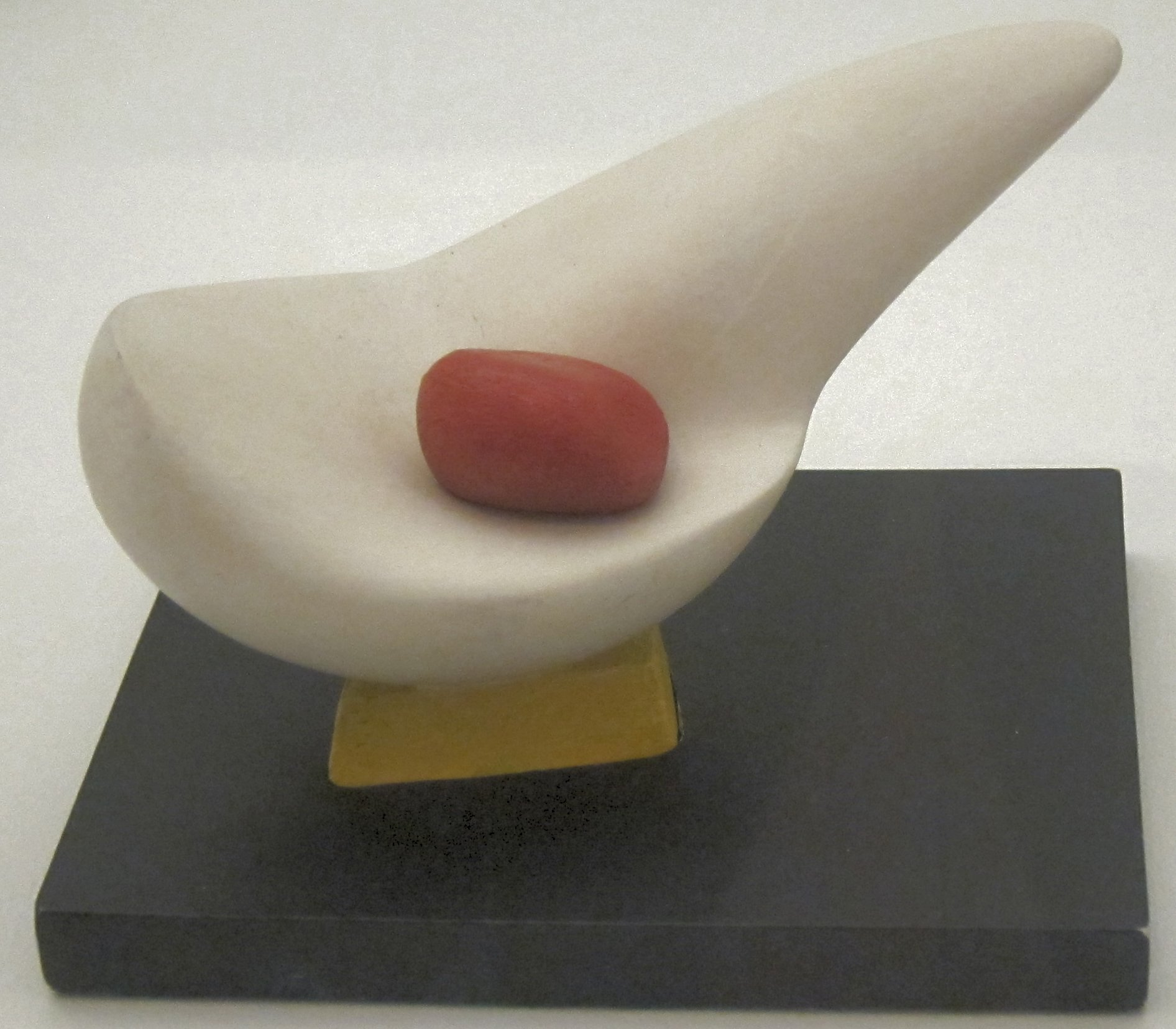 Mother and Egg, mixed media sculpture by Kurt Schwitters, c. 1945-7, Tate Modern